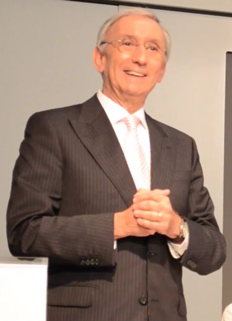 Júlio Isidro (1945-present), Portuguese television presenter, radio announcer and entertainer.